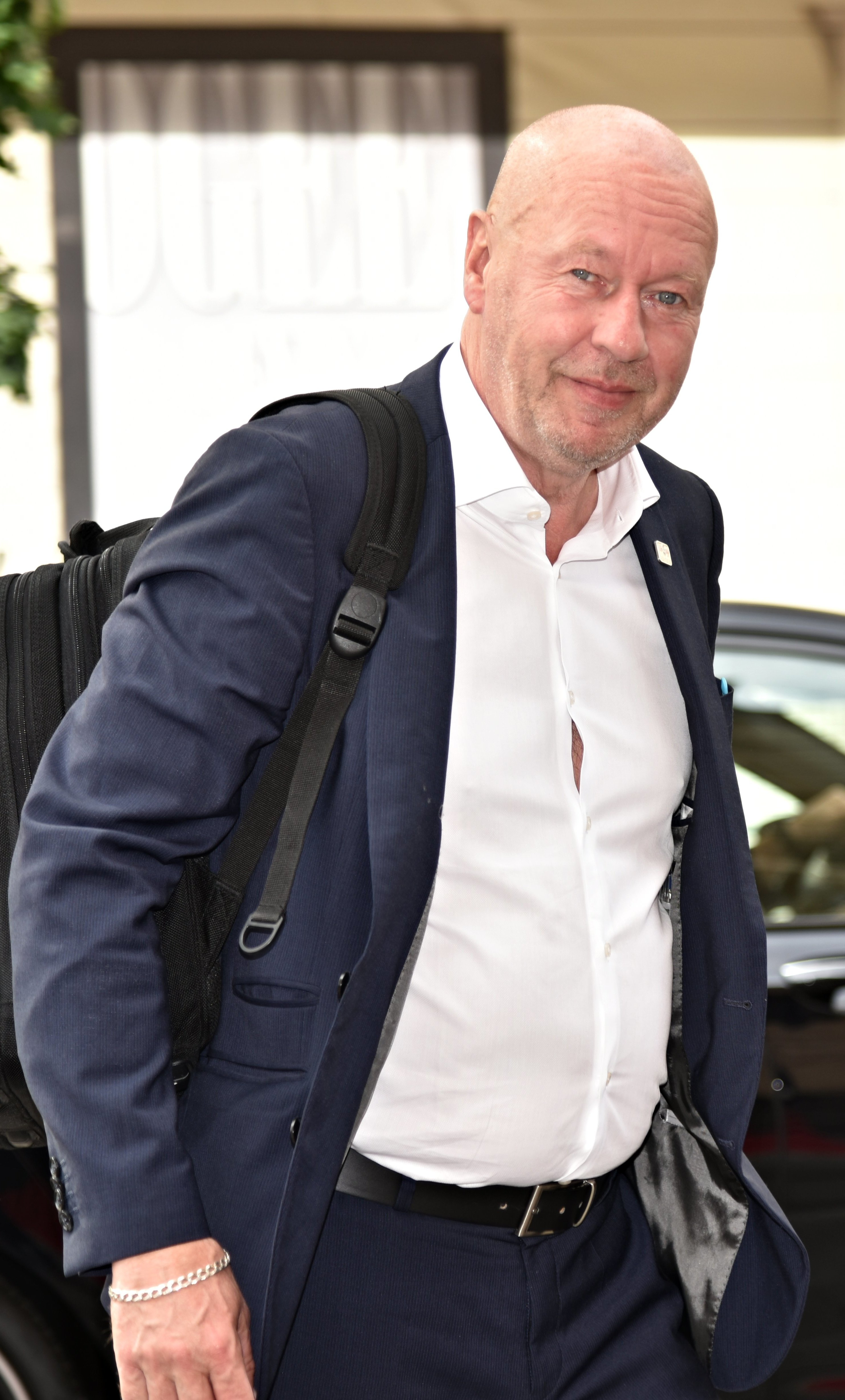 European Parliament, Mr. Thomas Hendel, Chair EMPL Informal Meeting of Ministers for Employment and Social Policy ph halime sarrag